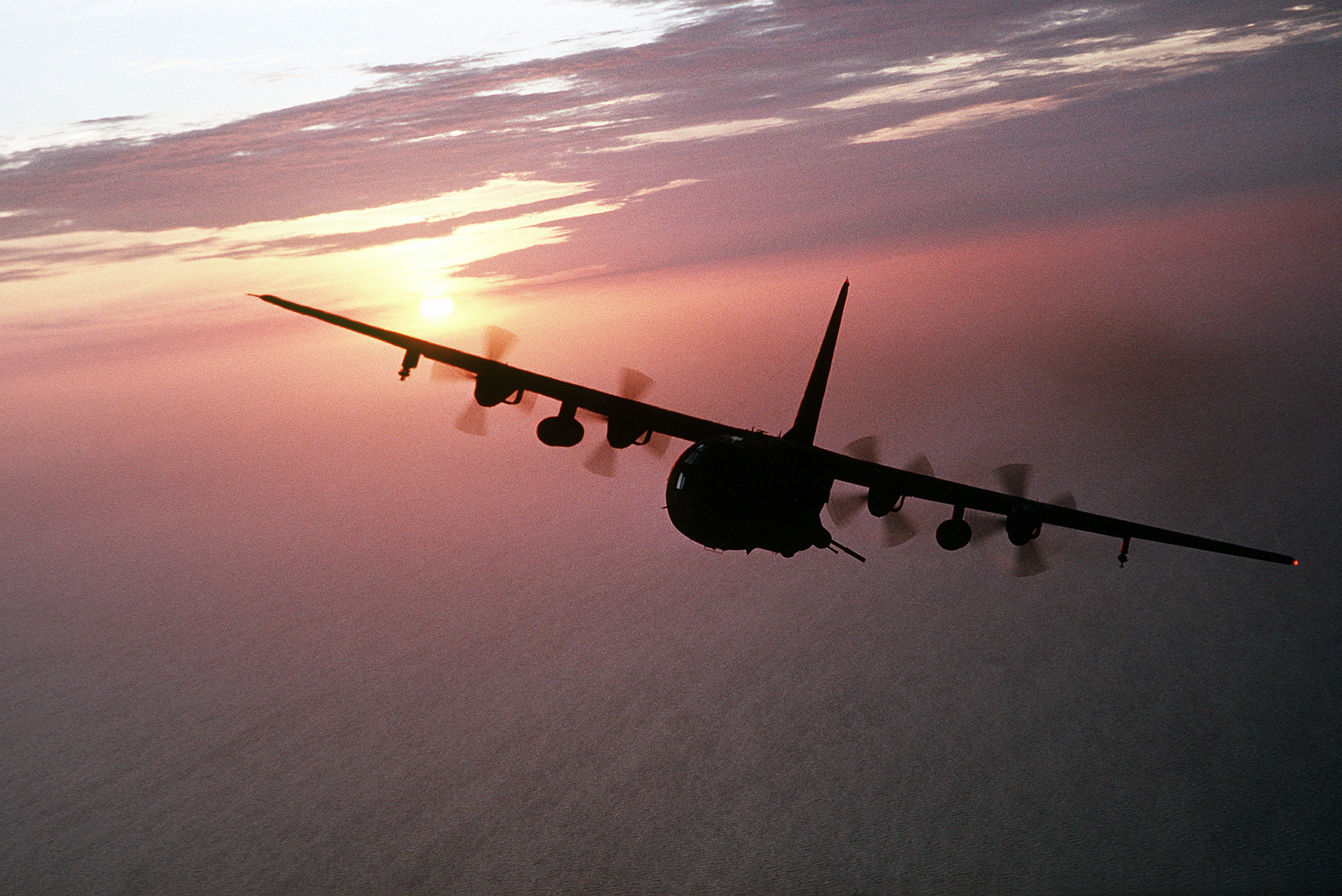 A silhouetted air-to-air view of an AC-130 Hercules from the 16th Special Operations Squadron.